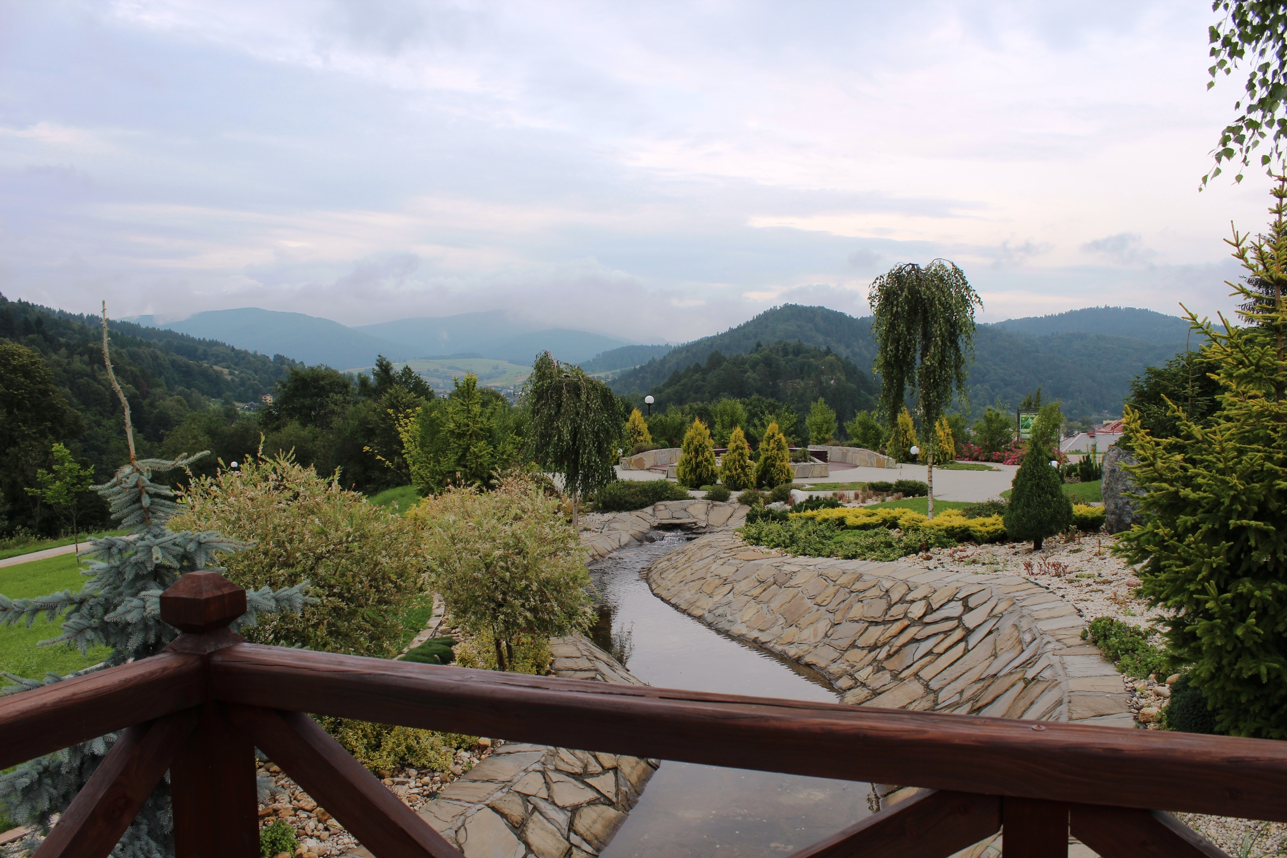 Zapopradzie Park in Muszyna